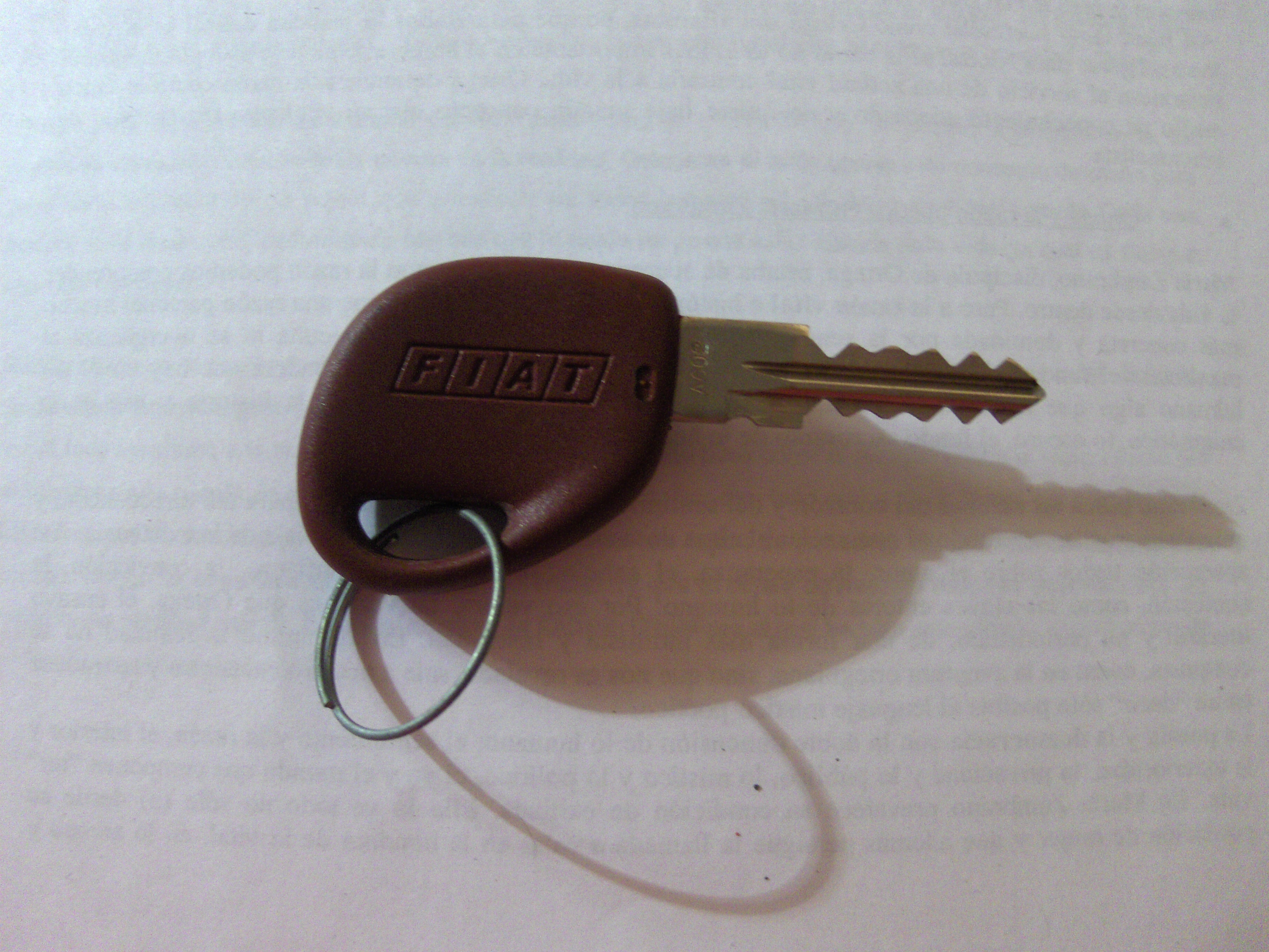 Photo of a FIAT Brava key